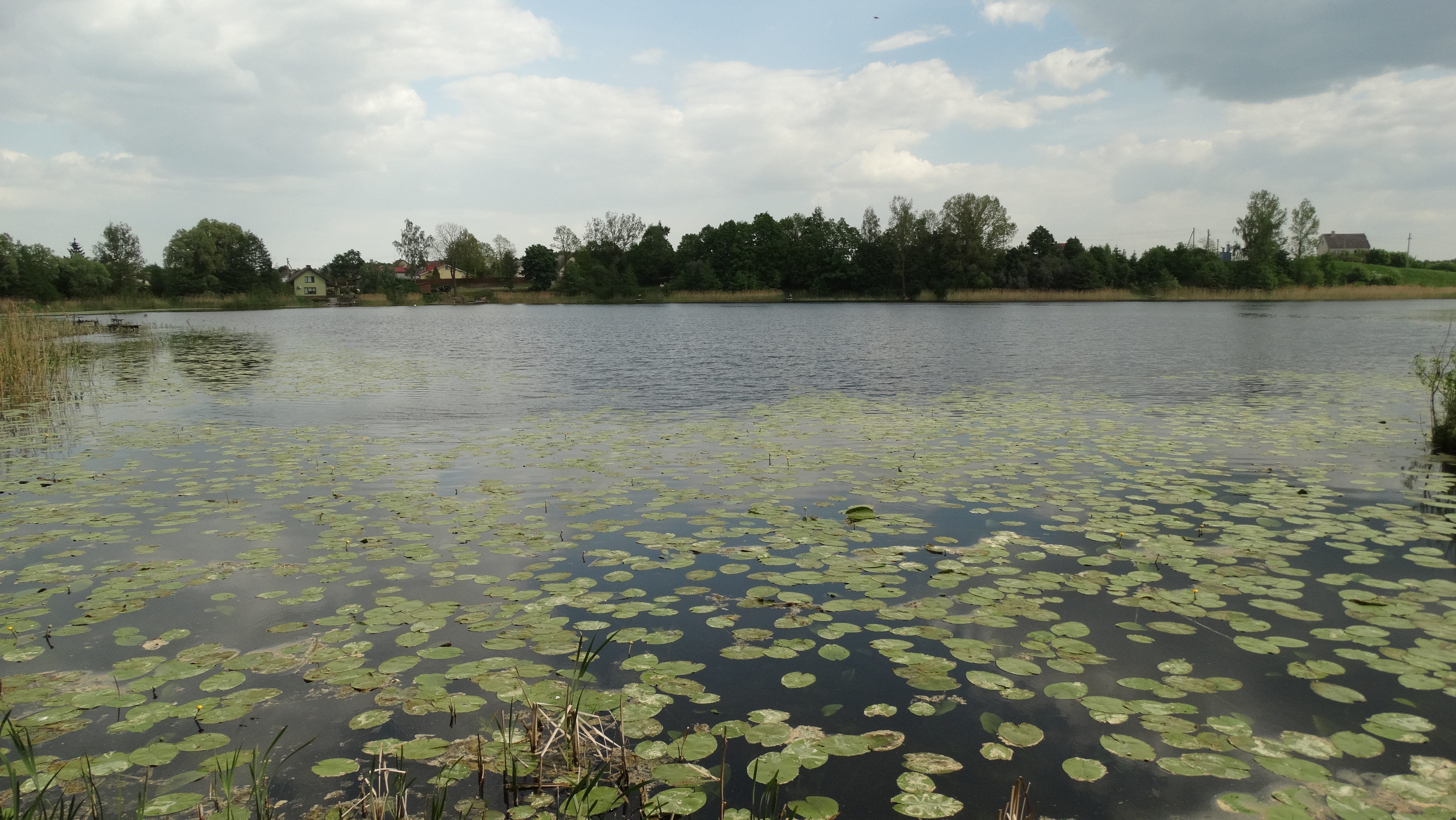 Liudvinavas Lake, Marijampolė Municipality, Lithuania